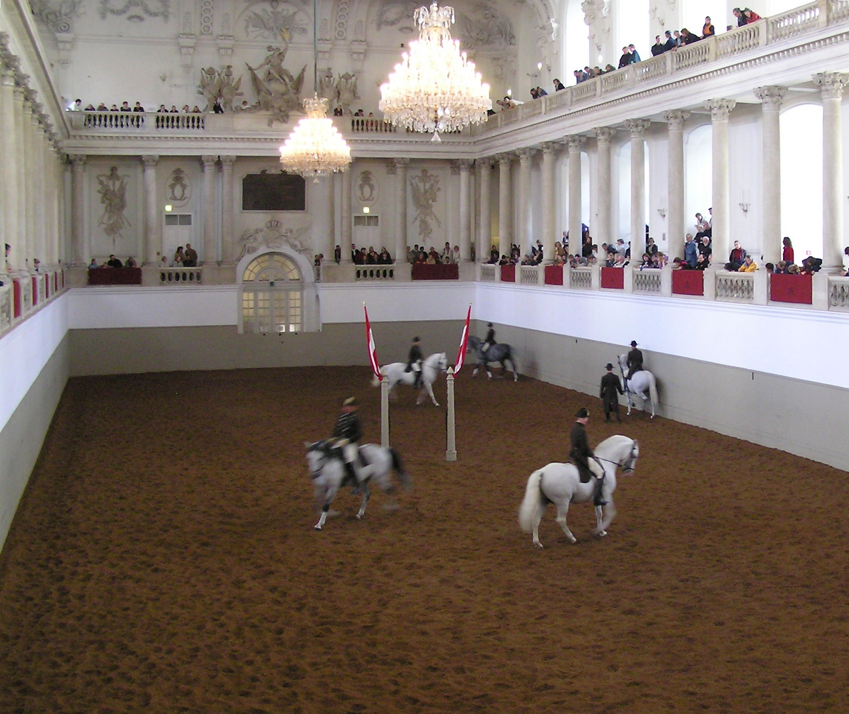 Spanische Hofreitschule in Vienna.